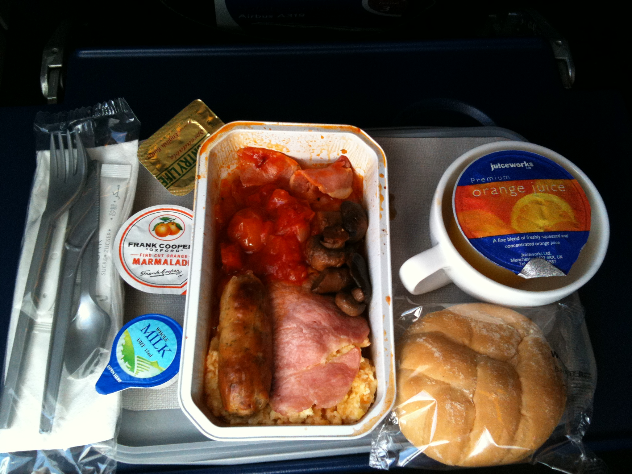 Lovely BA breakfast